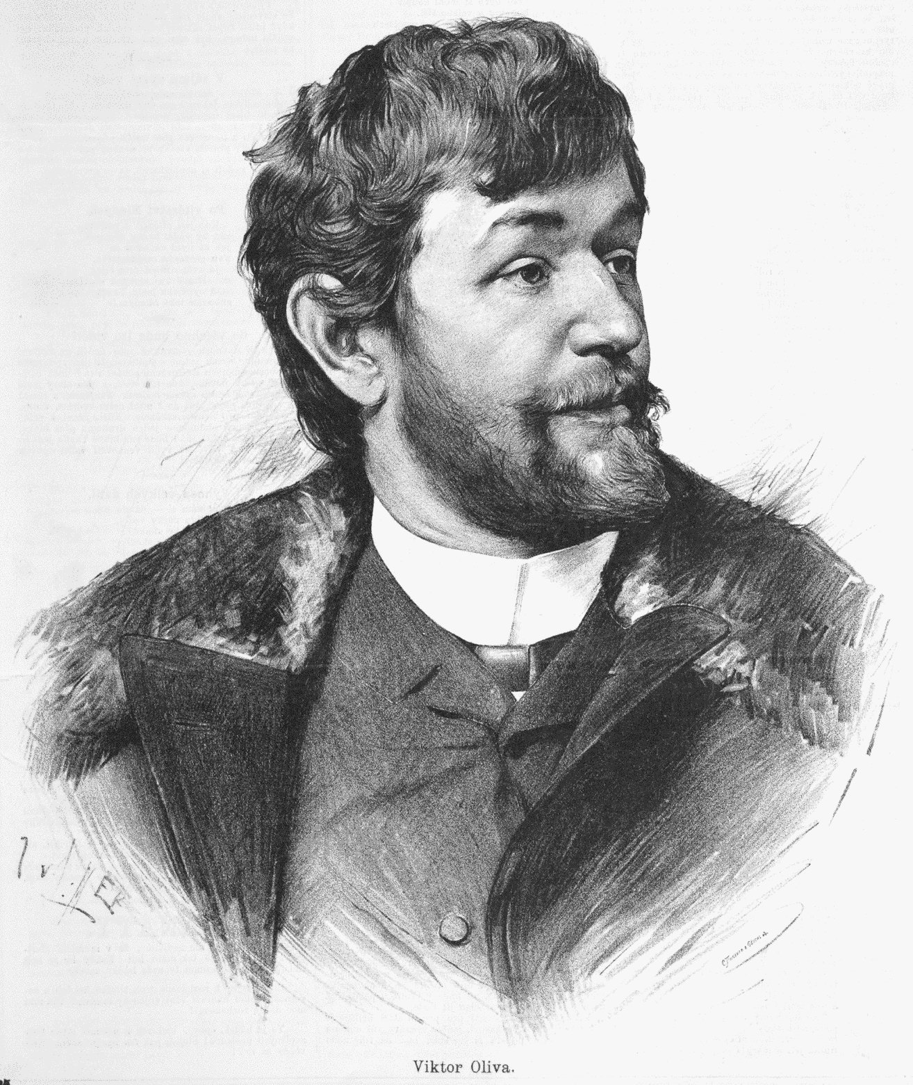 Portrait of Viktor Oliva, Czech painter.